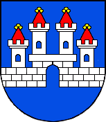 Coat of arms of Ilava, Slovakia